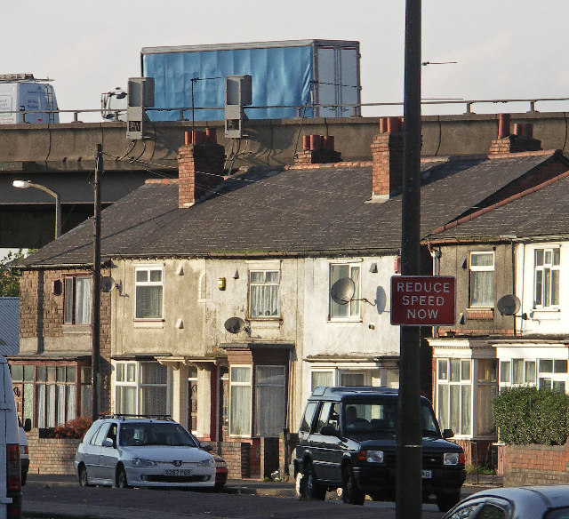 M5 Elevated Section, Oldbury. Photograph taken from Birmingham Road looking west. The motorway was built in the 1960s.